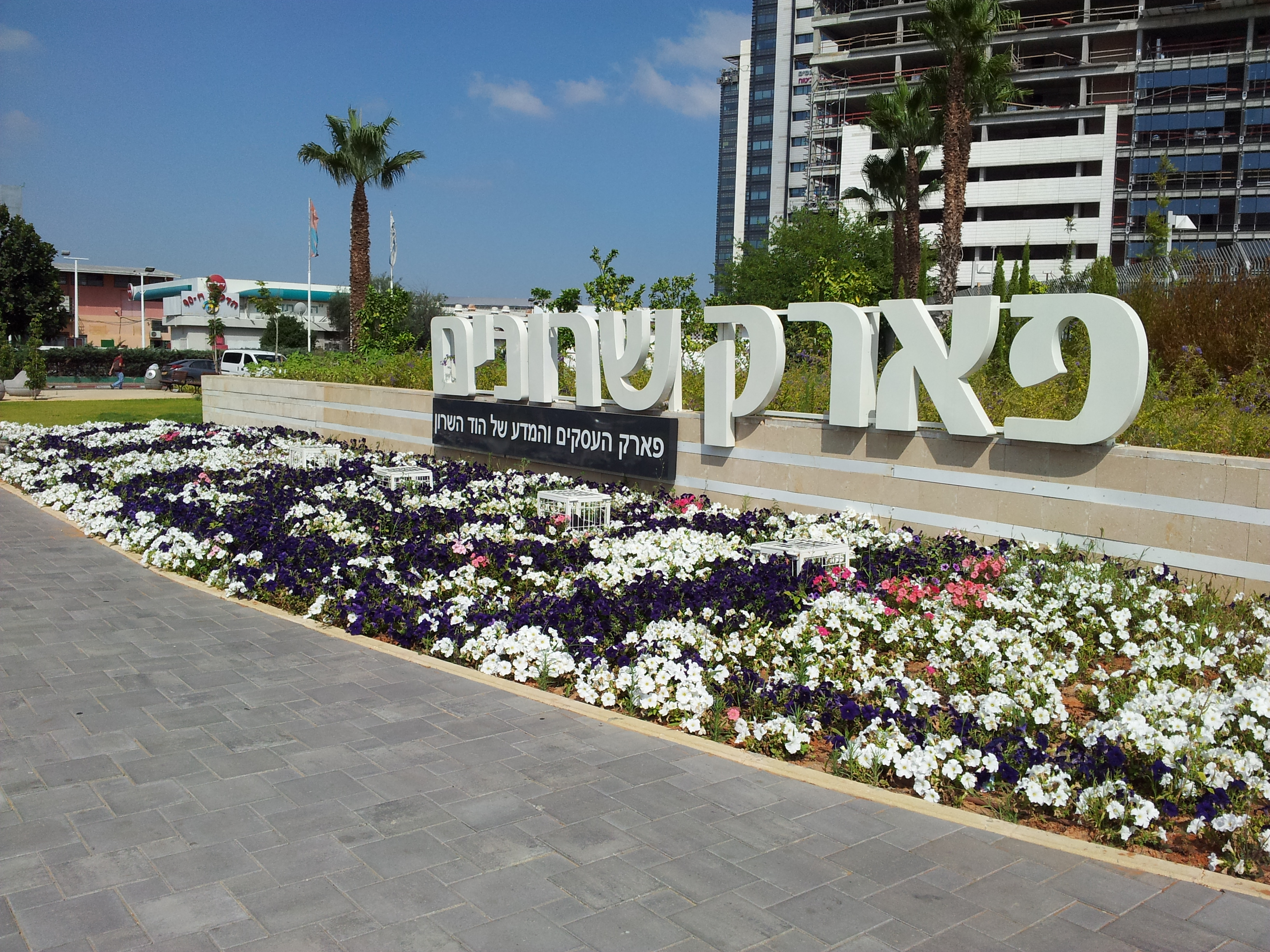 Park Sharonim